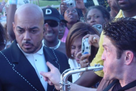 James Ingram and Dave Koz